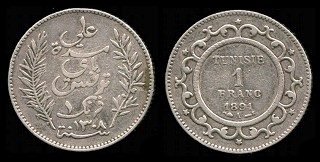 1 franc - 1891 - Tunisia (1891, not 1894, sorry)